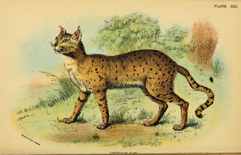 Desert Cat / Felis ornata